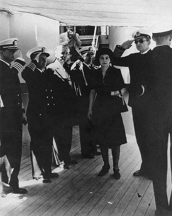 King Paul I and Queen Frederika of Greece visiting the USS Providence (CL-82), at Athens, circa May 1947. Standing at left are (from left to right): Captain J.M. Robinson, Commanding Officer, USS Shenandoah (AD-26); Captain A.J. Robertson, Commanding Officer, USS Providence; Lincoln MacVeagh, U.S. Ambassador to Greece; and Rear Admiral George C. Dyer, Commander Cruiser Division TEN.